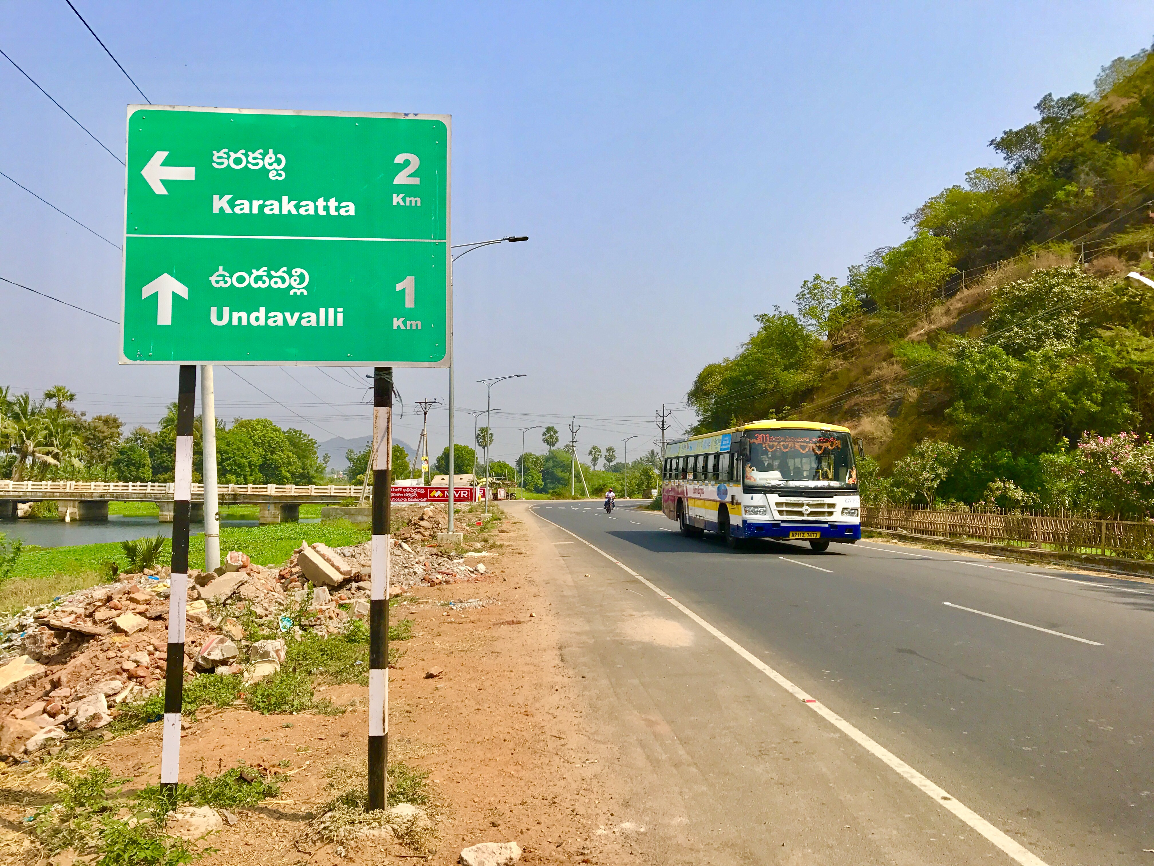 Undavalli sign board near caves